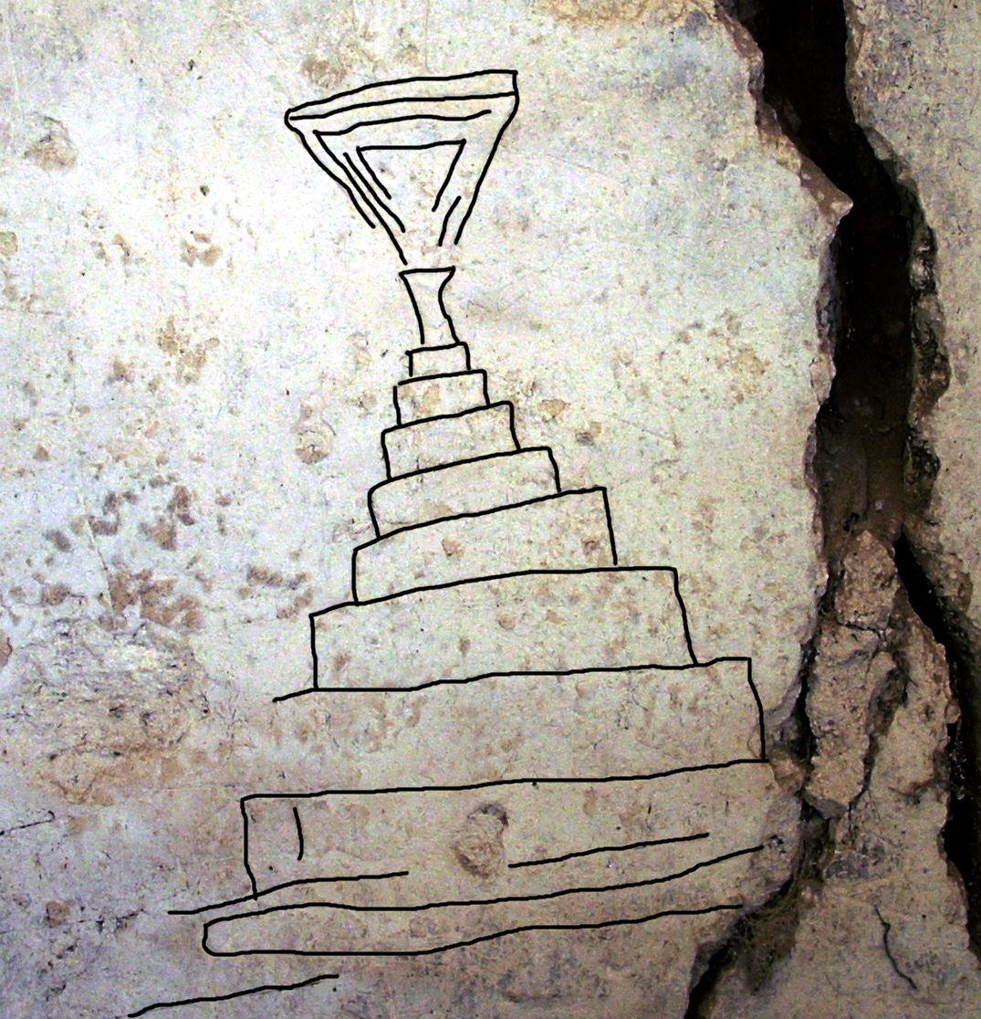 Graffito of a pyramid at La Blanca, Petén, Guatemala - with lines digitally overdrawn in black for visibility.